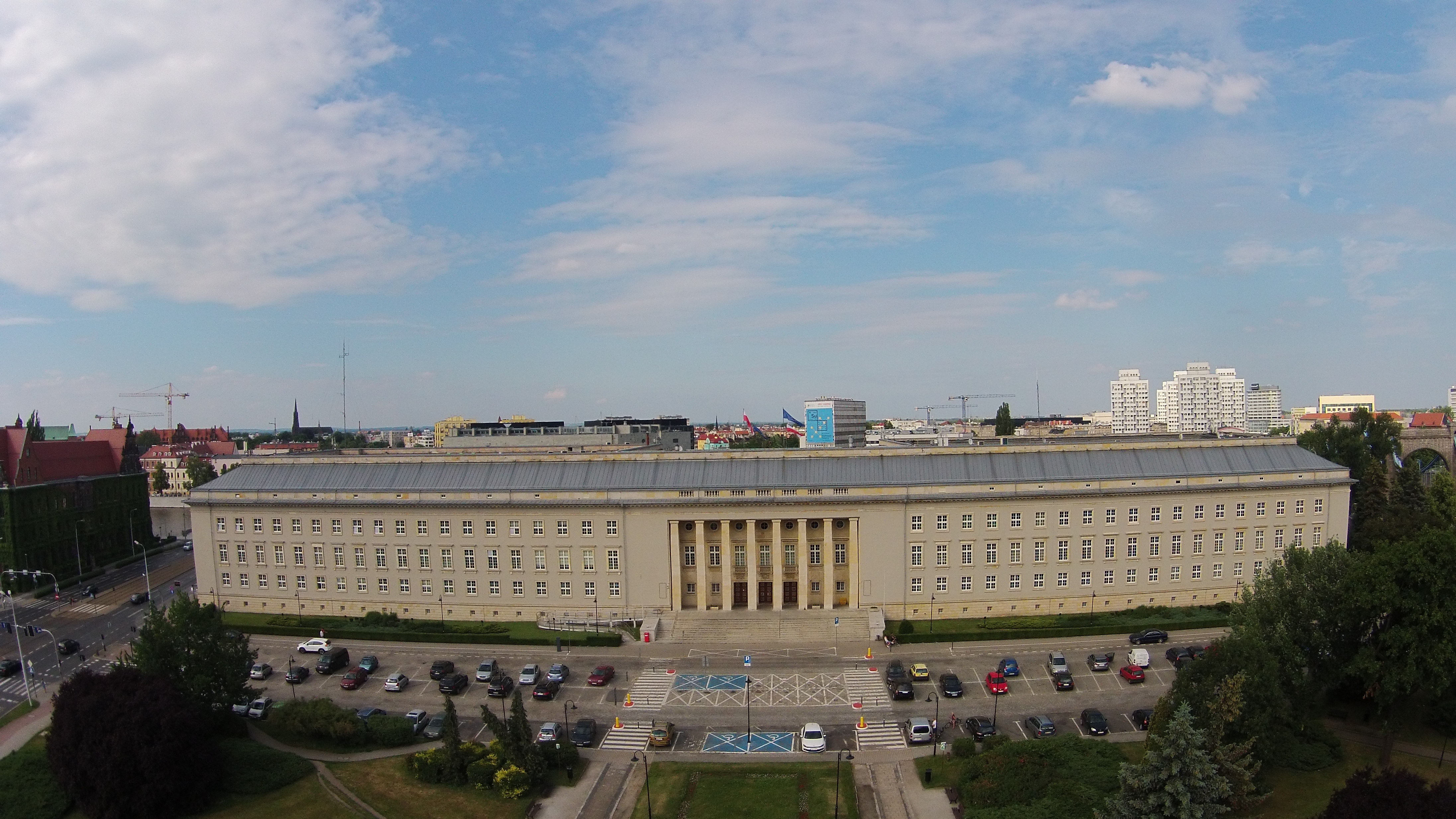 Lower Silesian Voivodeship Office